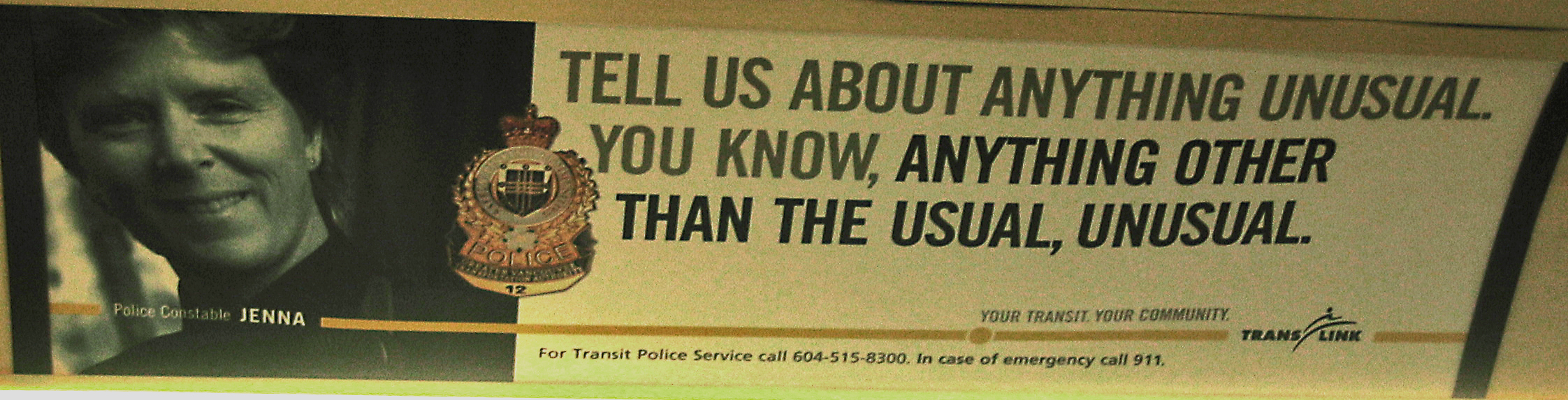 Orwellian bus ad for Vancouver transit cops